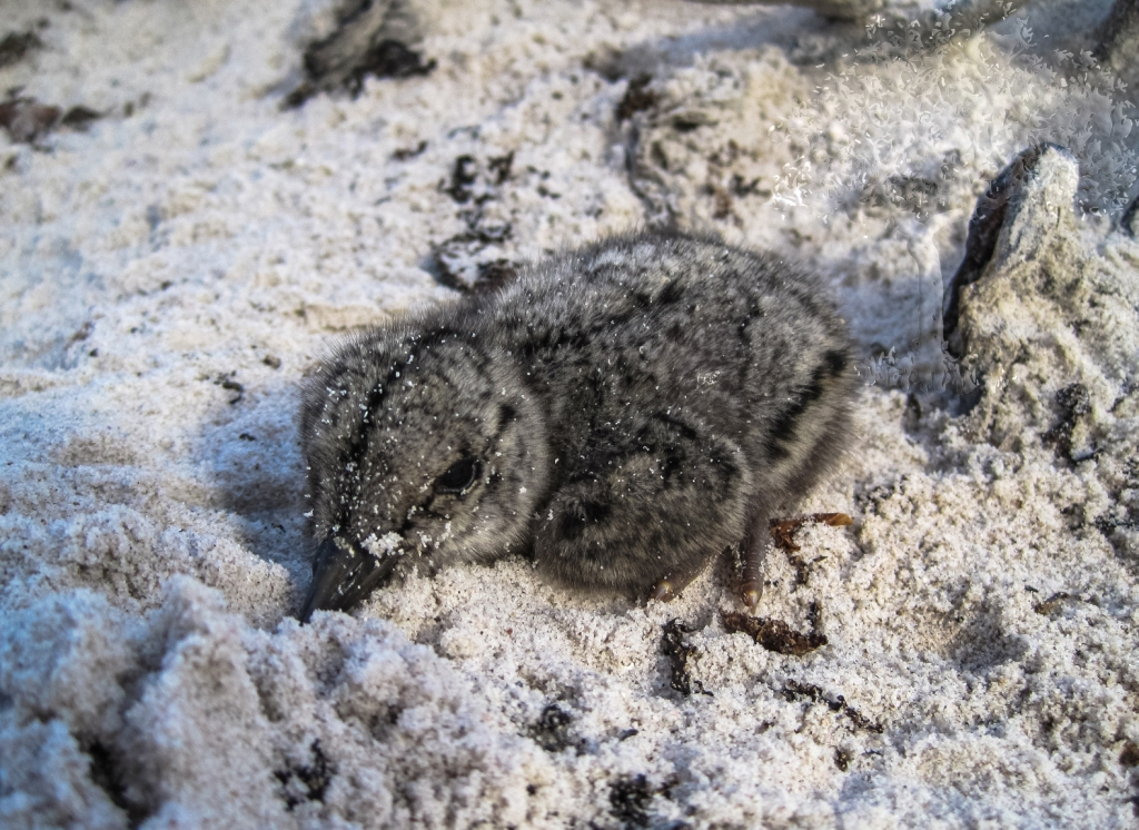 African Black Oystercatcher chick